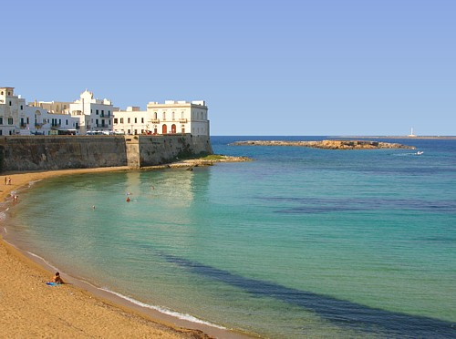 Gallipoli, the sea